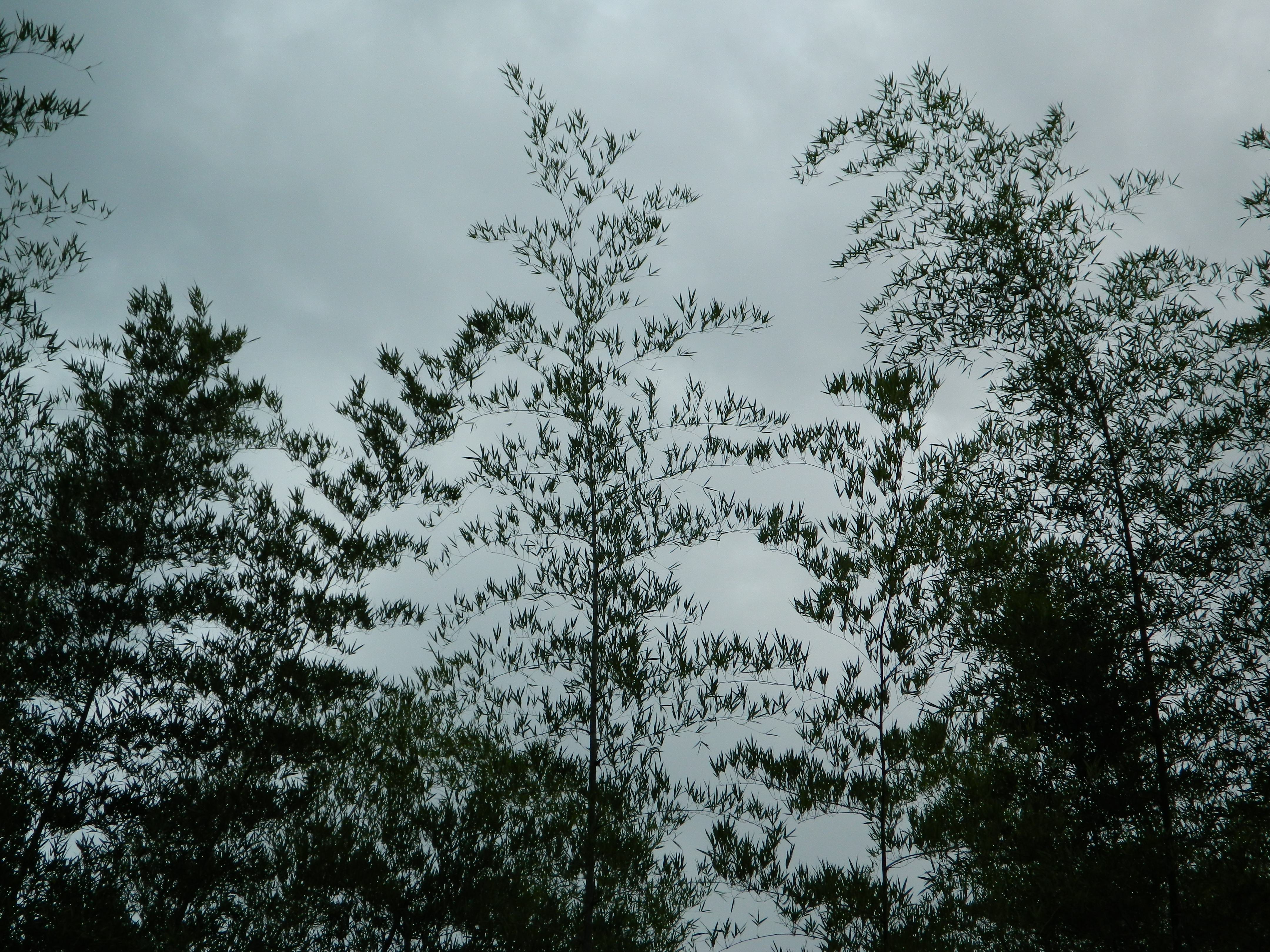 Canopy formed by the Bamboos, Periyar National Park and Wildlife Sanctuary, India